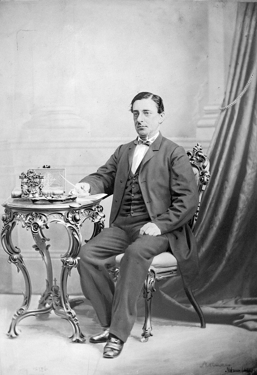 Date: 1865 Photographer: Notman Reference code: P1289